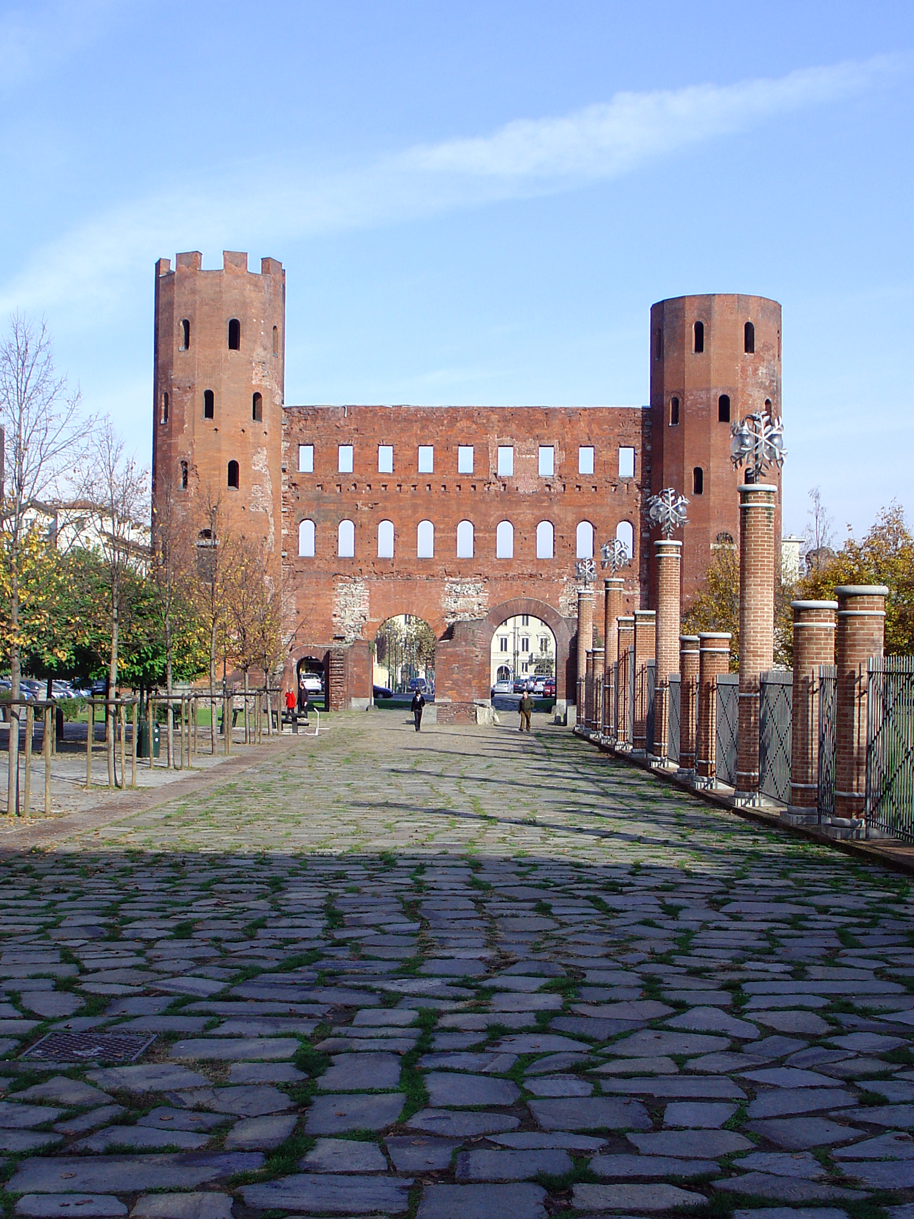 Turin: Porte Palatine (Roman ruins) with the Cardo